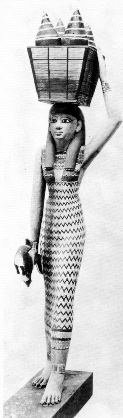 Offering Carrier. Painted wood. From the tomb of Meketre, ca. 2000 BC. Dynasty 11. In Cairo, Egyptian Museum, upper floor, room 27, JE 46725, H = 123 cm.